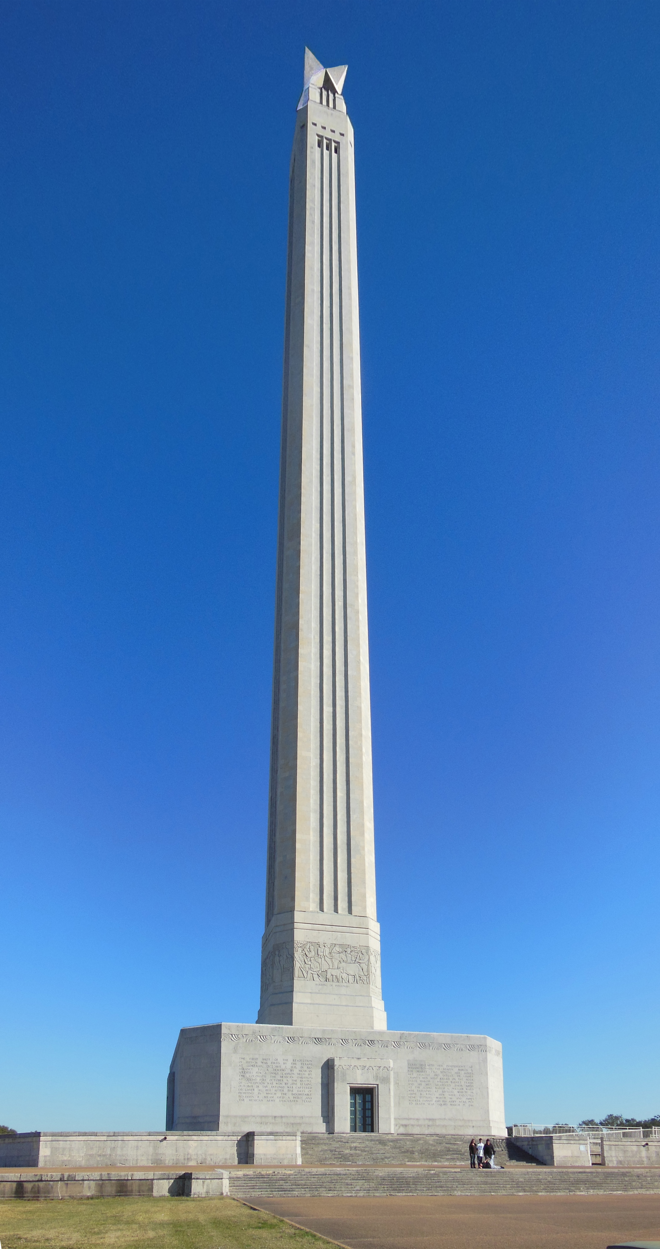 Bas reliefs on the San Jacinto Monument